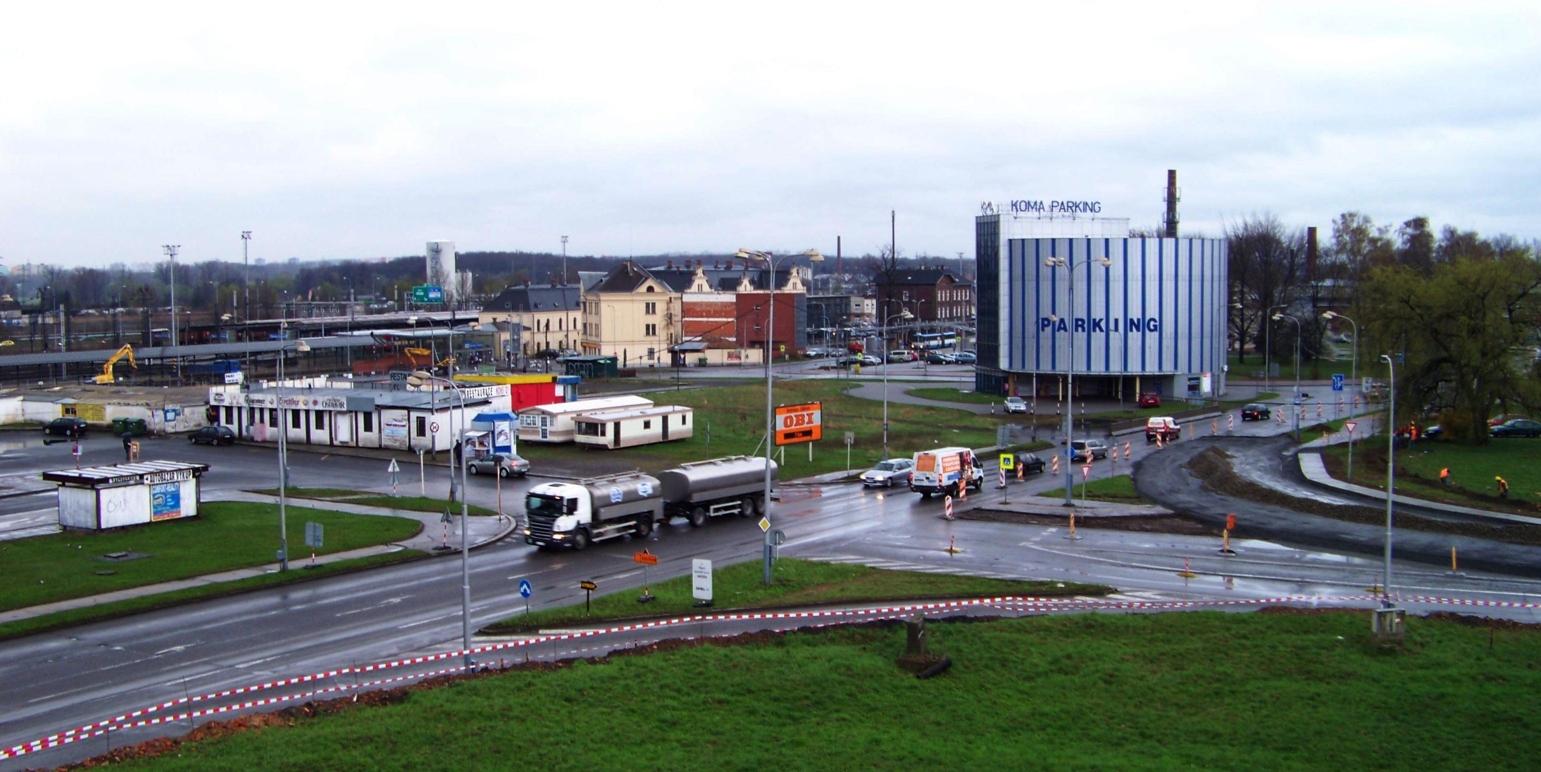 Ostrava-Svinov, Moravian-Silesian Region, the Czech Republic. A the train station.